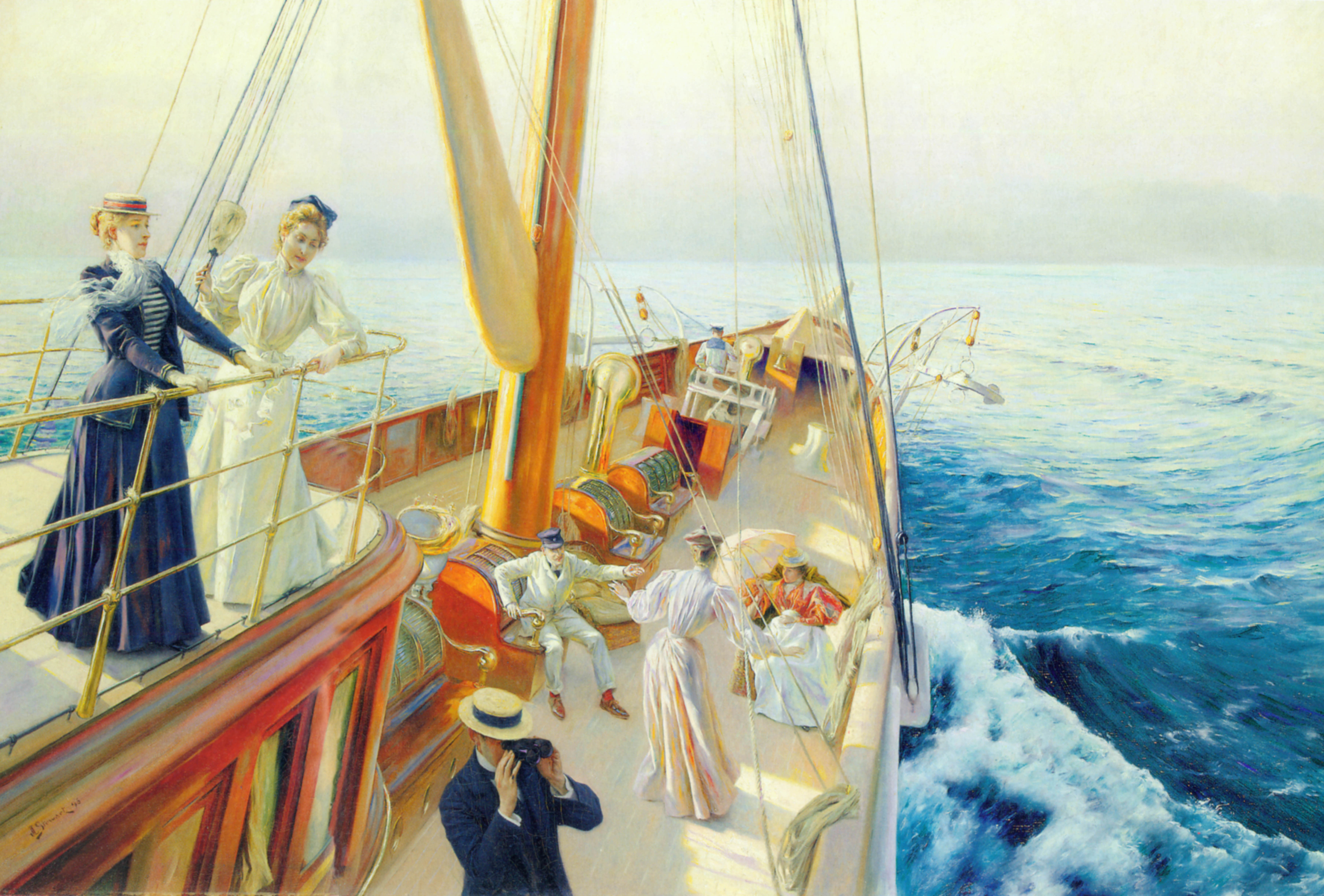 Yachting the Mediterranean, McGlothlin Collection, Virginia Museum of Fine Arts, Richmond, VA.[1]